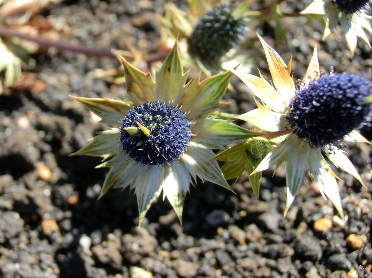 Eryngium carlinae, inflorescence. Costa Rica, Irazú Volcano National Park, ca. 3400 m.